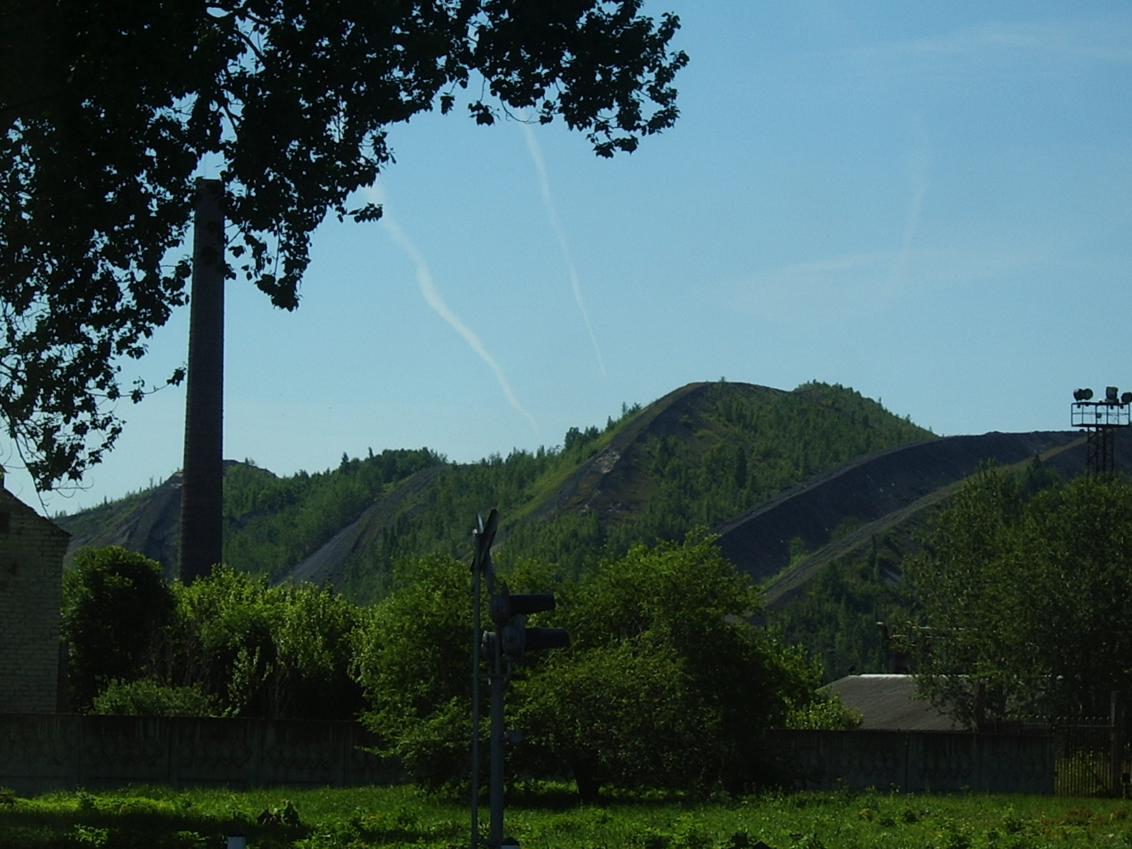 Ash mountains in Ida-Viru County, Estonia